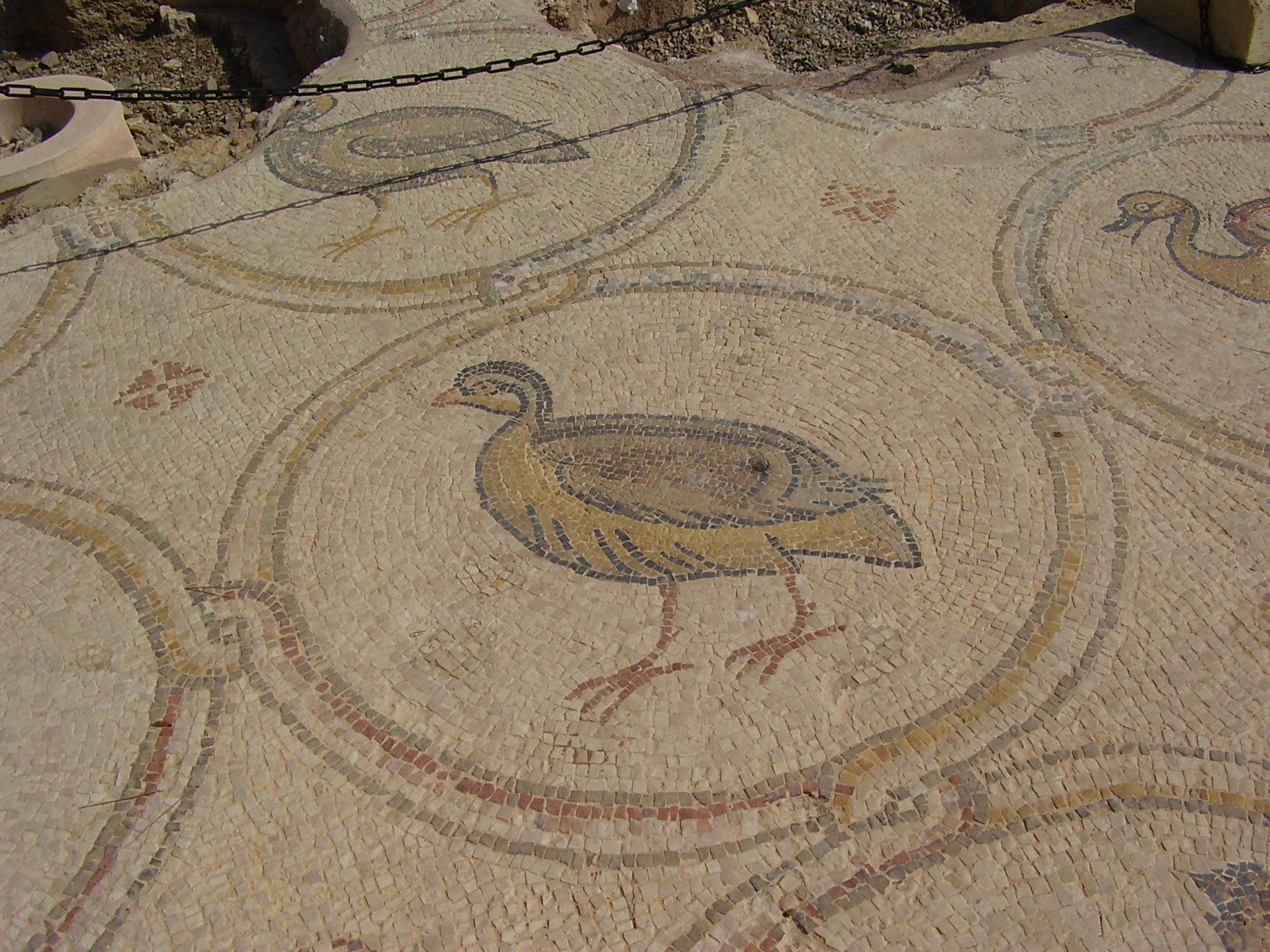 Birds mosaic in Caesarea